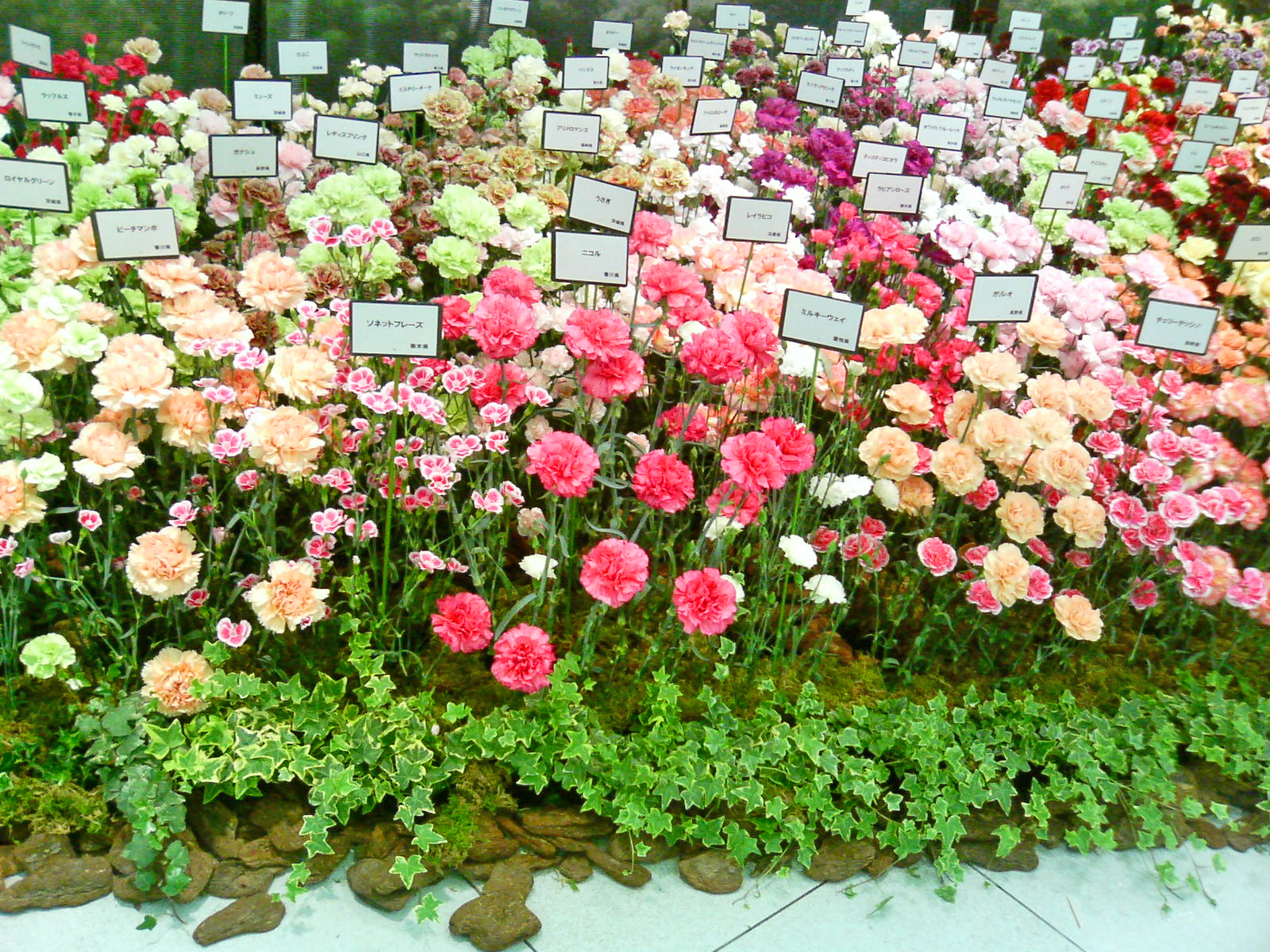 varieties of carnation flowers, Dianthus caryophyllus, displayed for Mother's Day gift - Ginza, Tokyo, Japan.